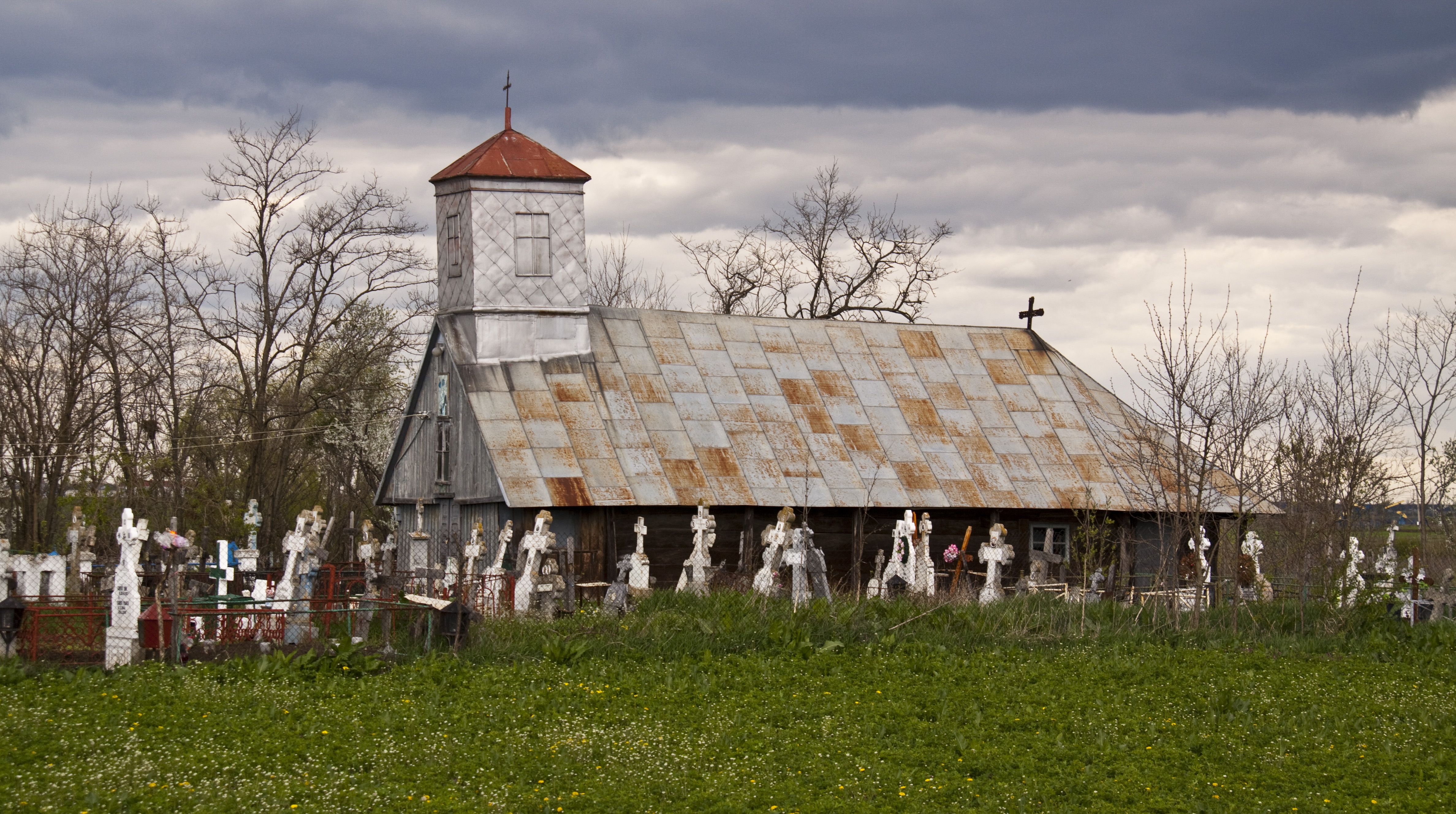 Sericu, Teleorman county, Romania: the wooden church.